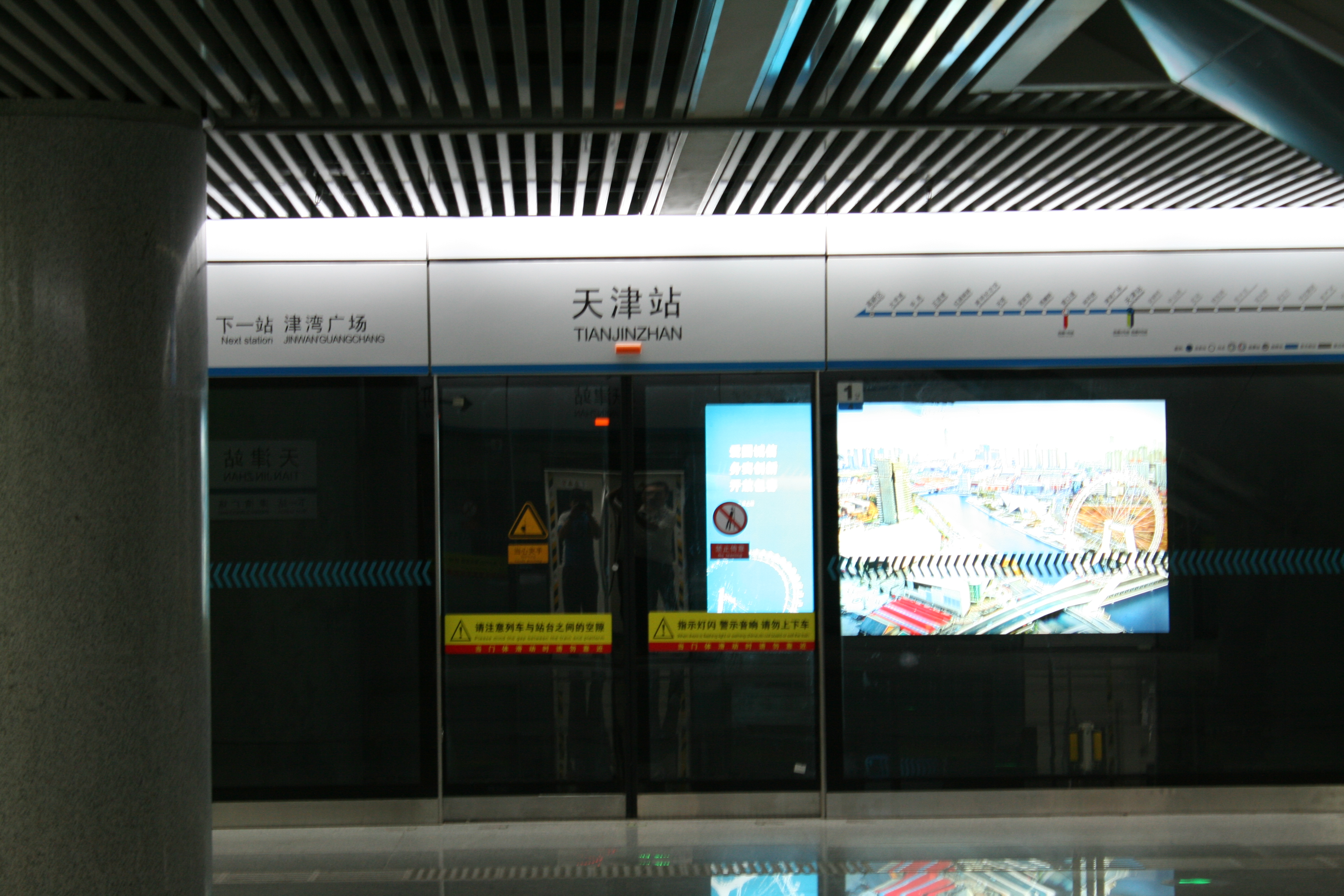 tianjin metro line 3 the TIANJINZHAN Station ...0006